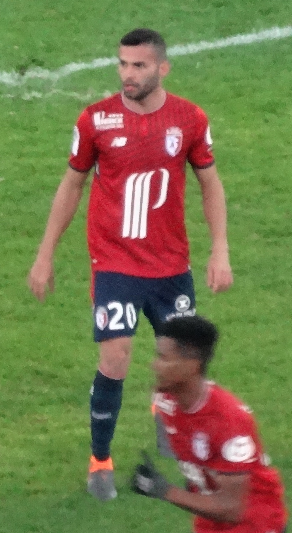 Thiago Maia (LOSC)